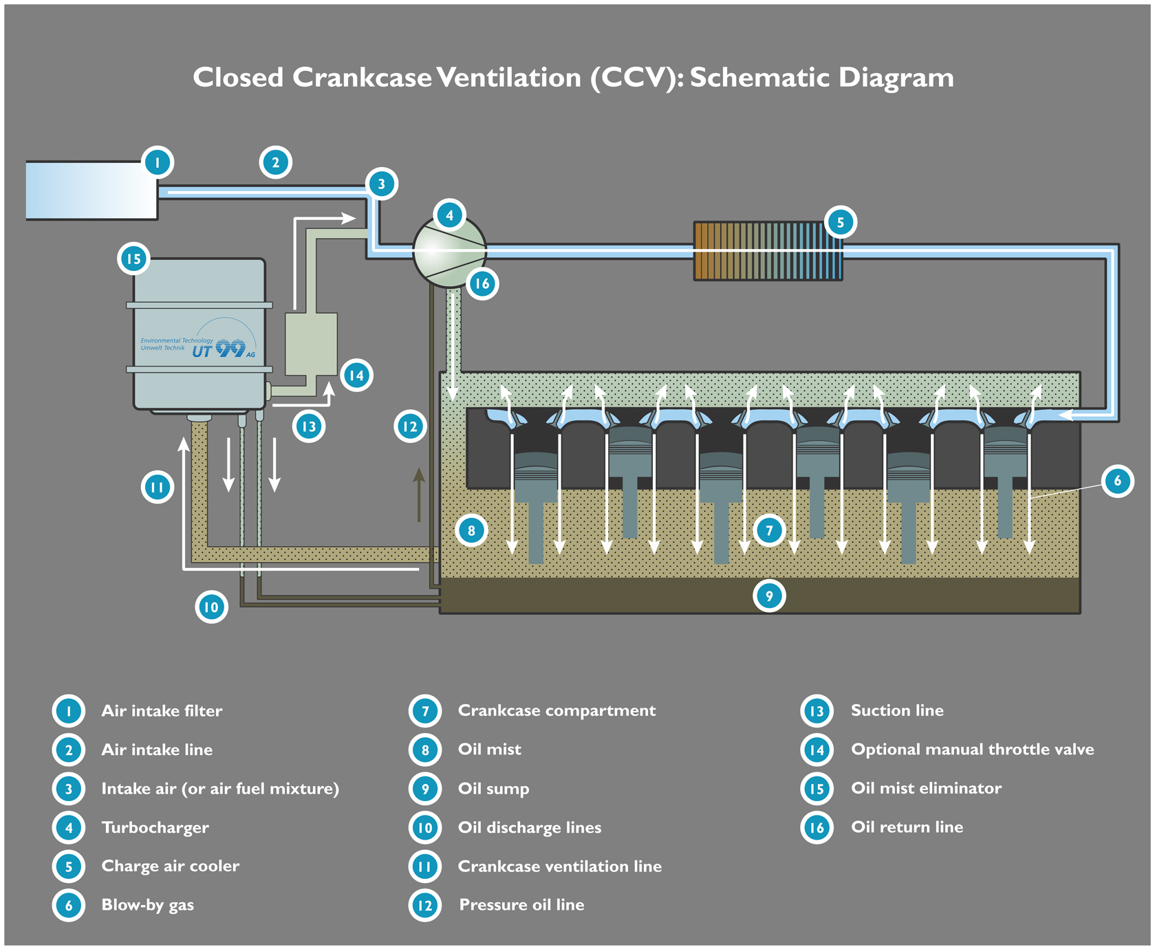 Schematic diagram of a closed crankcase ventilation from a combustion engine with a UT99 UPF-CCV oil mist eliminator.